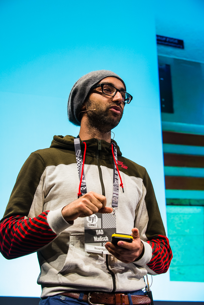 Berlin, Germany, March 19, 2014. Hy! Summit - Image by Dan Taylor.